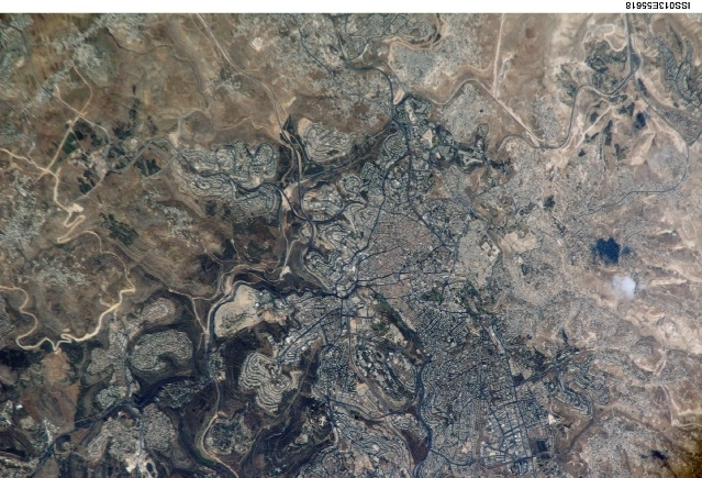 Astronaut Photo of Jerusalem, Israel taken from the International Space Station (ISS) during Expedition 13 on July 22, 2006.